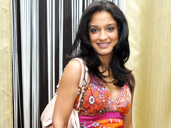 Sandhya Mridul at an event at Koh hosted by Shruti Seth